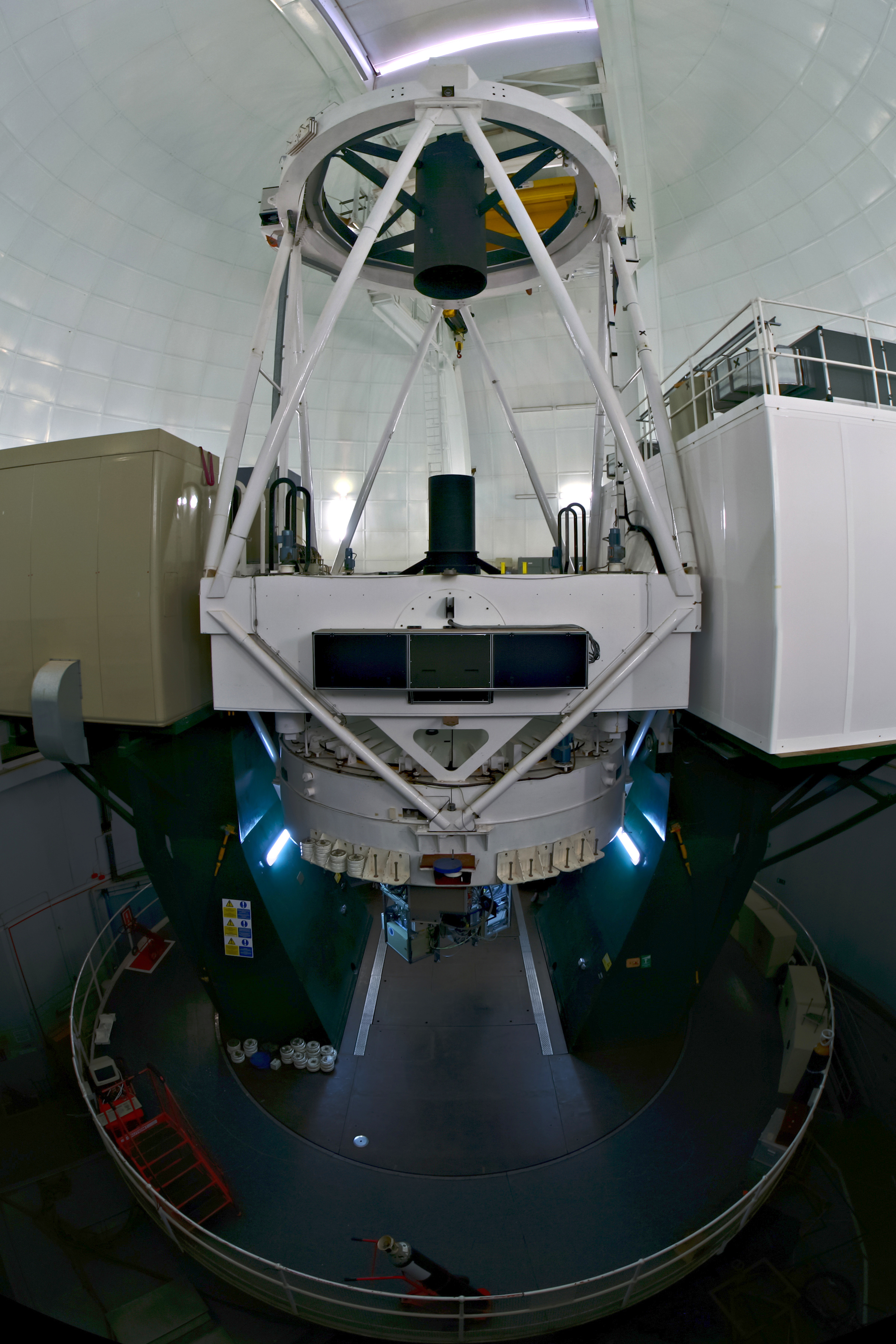 The William Herschel Telescope,a 4.2m refelctor at the Roque de los Muchachos Observatory, La Palma. This image was stitched from three overlapping shots using PTgui.